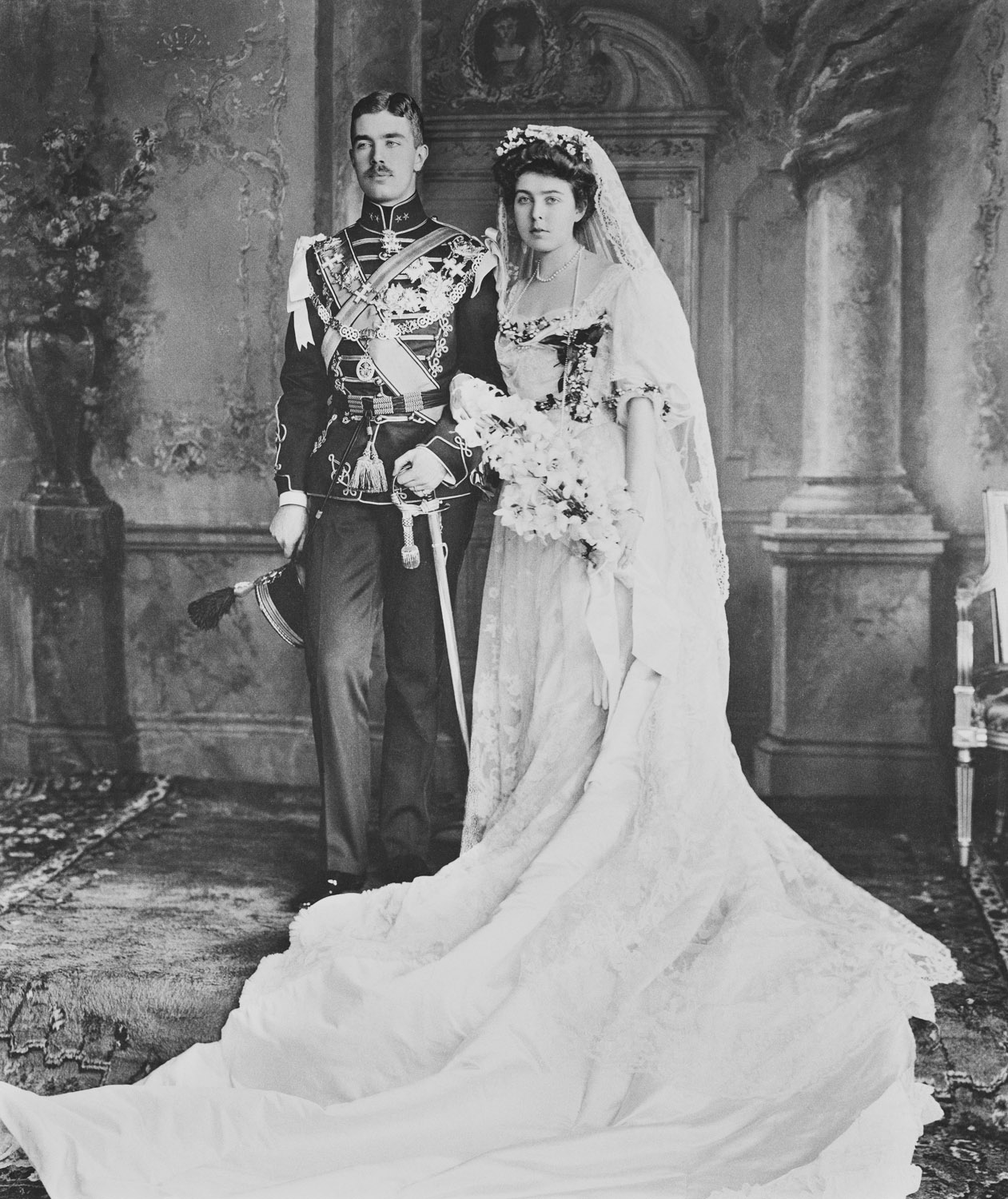 Photograph of Prince Gustaf Adolf, later King Gustaf IV Adolf of Sweden (1882-1973) and Princess Maragaret of Sweden (1881-1920): full length portrait, the Prince in full military uniform with many insignia; the Princess in wedding gown and full train, which is in front of her, holding bouquet. Taken in studio with painted background.